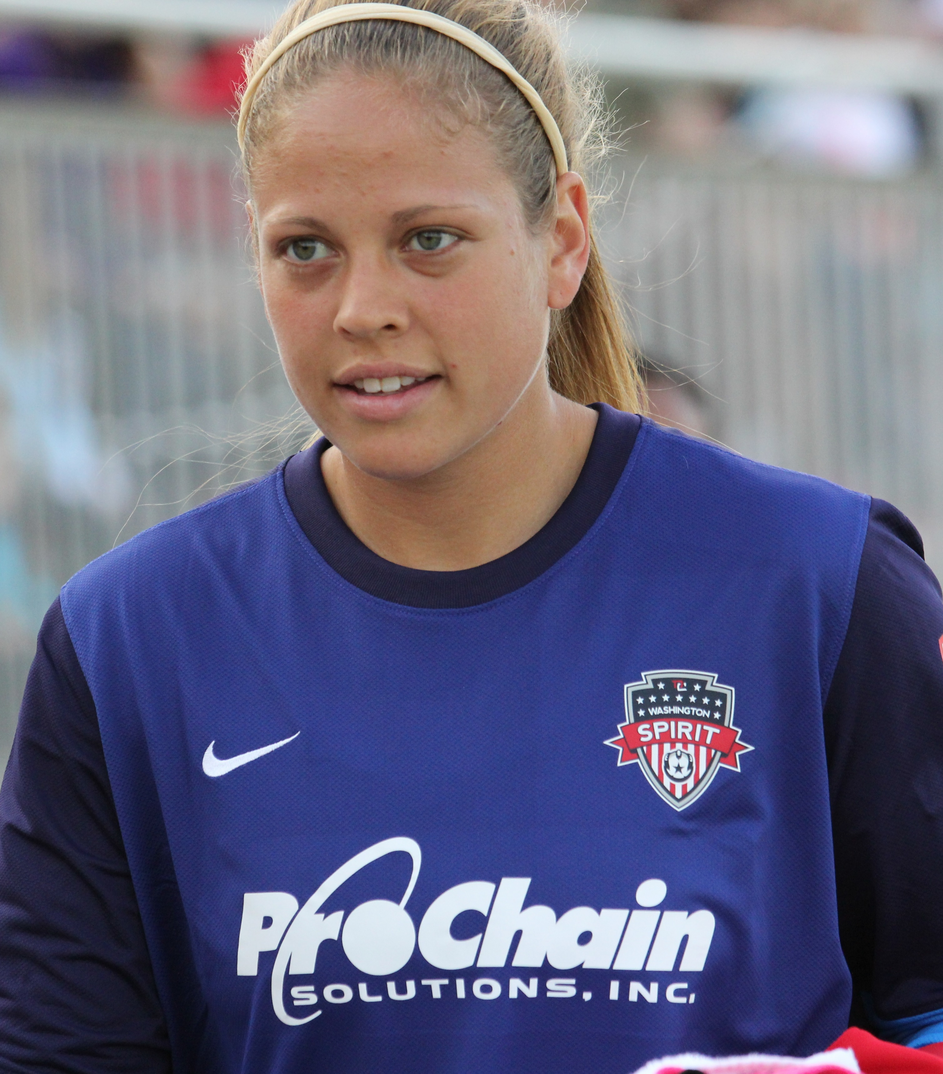 Chantel Jones (professional soccer goalkeeper) wearing jersey of Washington Spirit (2013)